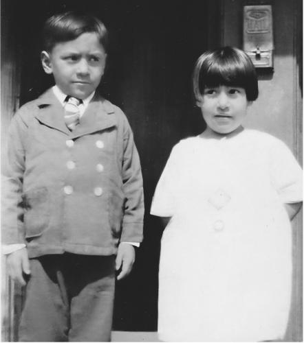 Lino Urquidez Martinez and Guadalupe Urquidez Martines, Grandchildren to Yaqui Chief Lino.